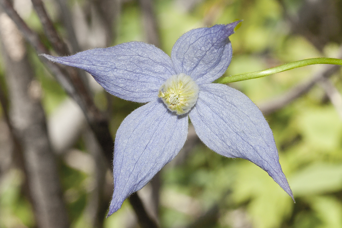 Clematis columbiana var. columbiana . Two Medicine Lake, Glacier National Park, MT., USA. July 16